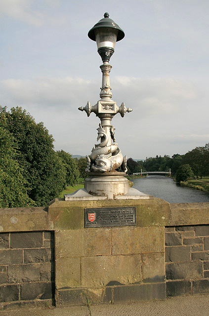 A dolphin lamp standard on Tweed Bridge, Peebles The original 15th century bridge has been much altered and repaired over the years, and until the 18th century it was the only bridge over the Tweed above Kelso. The dolphin lamp standards on the bridge date from works carried out in 1900. The foot bridge in the background is Priorsford Bridge. The sign on the parapet reads:- TWEED BRIDGE (15thC) A WOODEN BRIDGE, CLAD IN STONE AND LATER WIDENED. THE ORIGINAL STONEWORK IS VISIBLE FROM BELOW